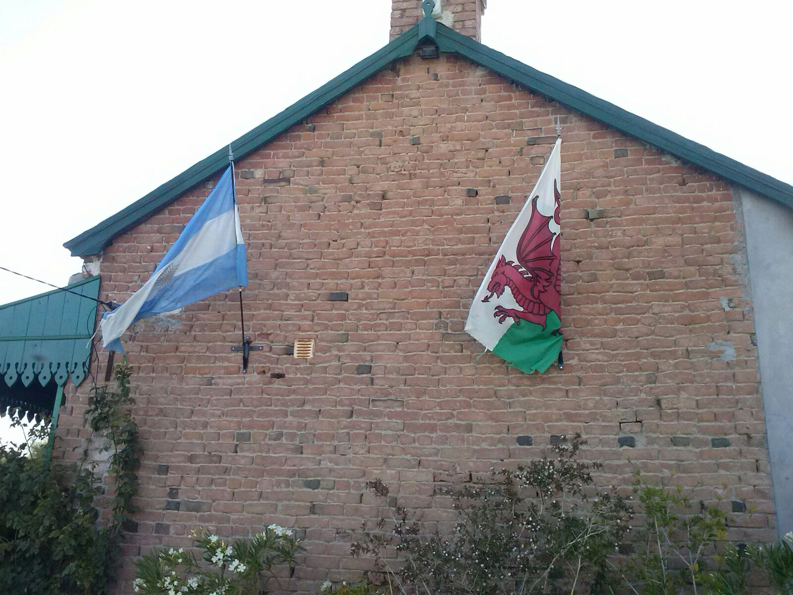 The flags of Argentina and Wales on a wall of a Welsh Tea House in Gaiman, Chubut, Argentina.